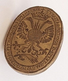 Picture of the seal of Skanderbeg. Photograph was taken by Bjoern Andersen, who has permitted the use with Wikipedia.